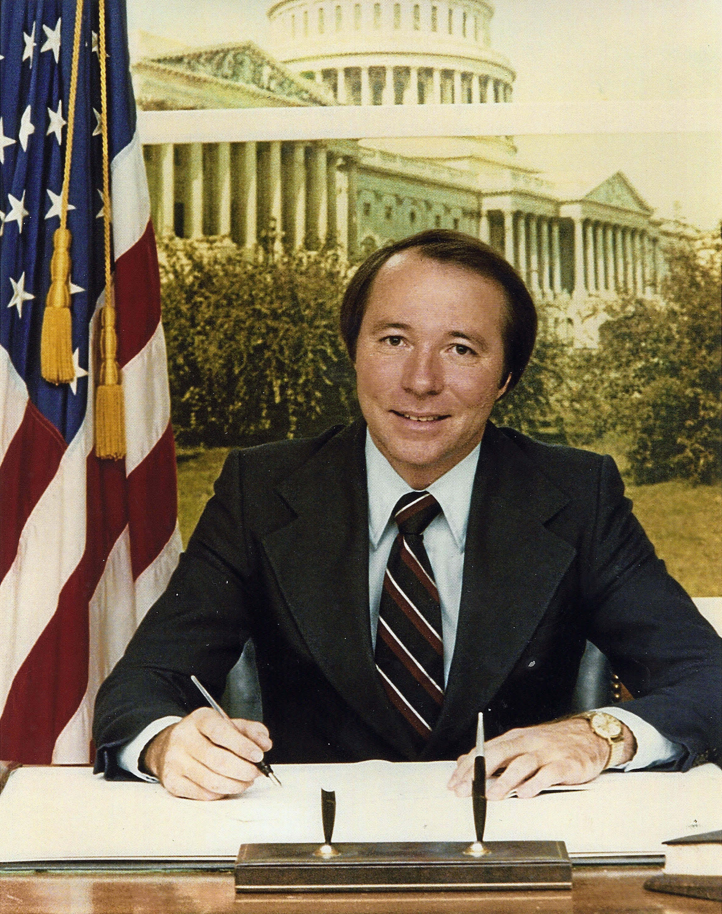 (now-former) U.S. Representative Jerry Huckaby, D-LA, as he entered Congress